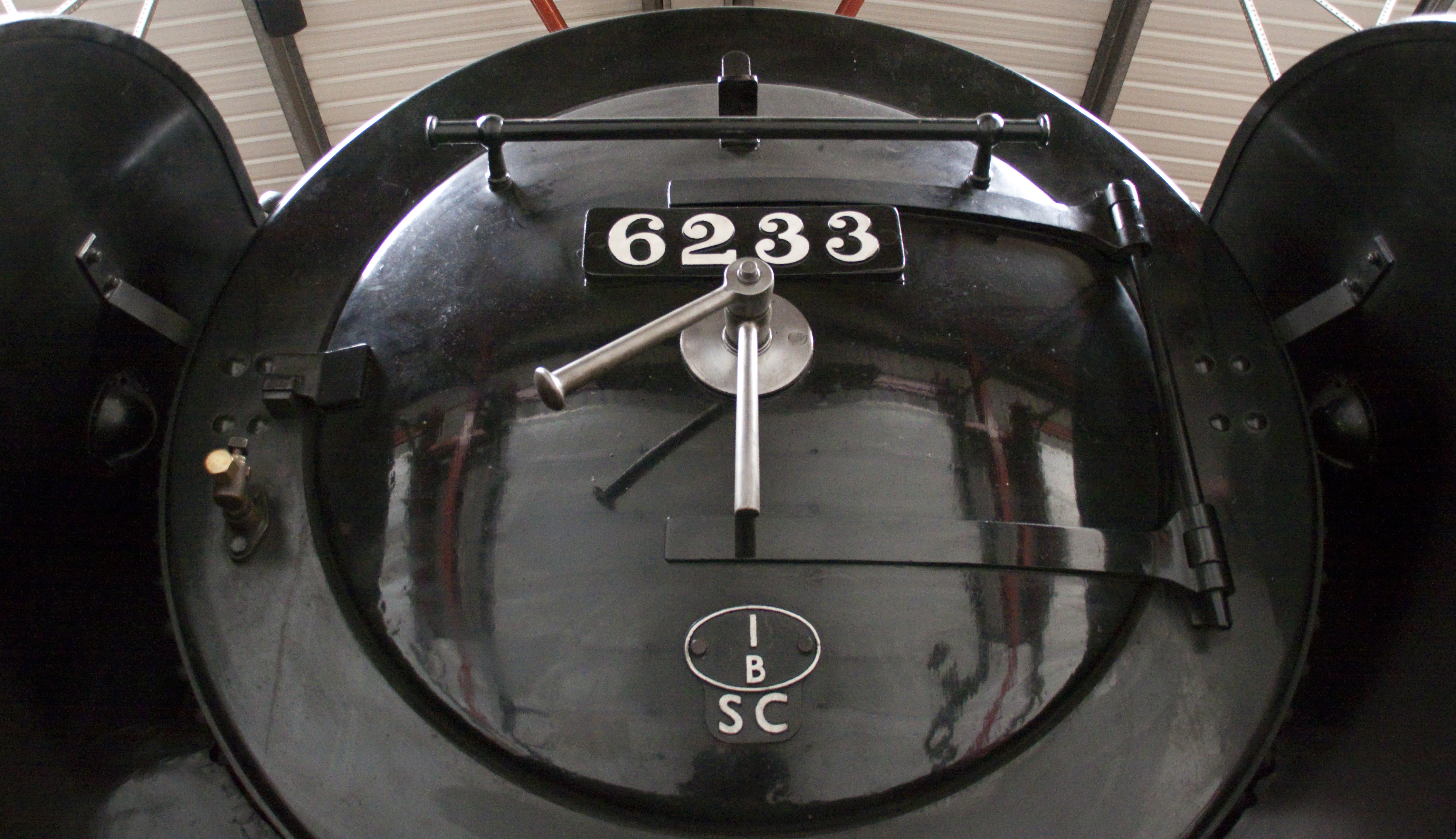 Duchess of Sutherland 6233